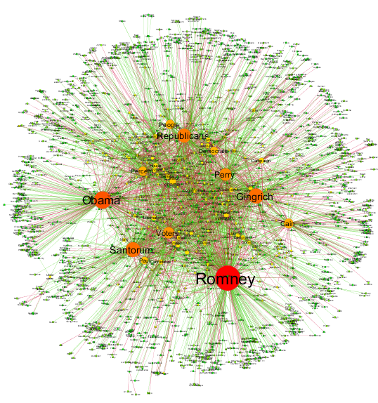 Narrative Network of US Election 2012 - Nodes indicate noun phrases, links go from subject to object, color expresses relation of support or opposition. Appeared in: "Automated analysis of the US presidential elections using Big Data and network analysis; S Sudhahar, GA Veltri, N Cristianini; Big Data & Society 2 (1), 1-28, 2015"